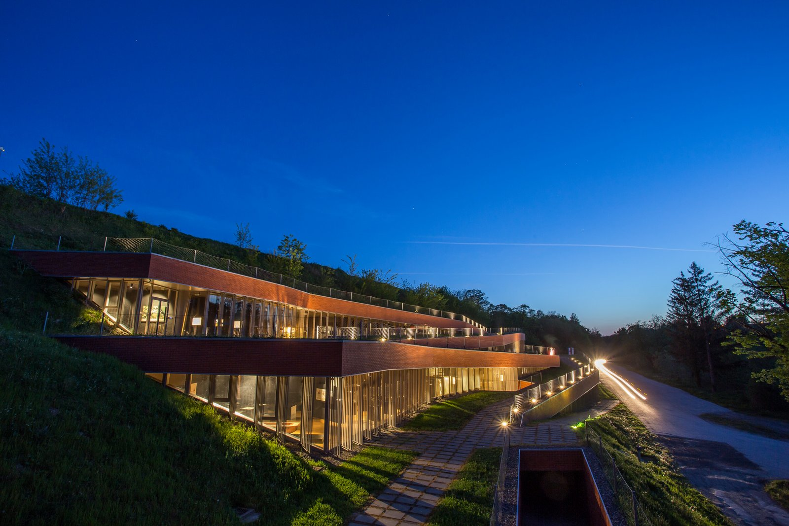 Vučedol Culture Museum at night